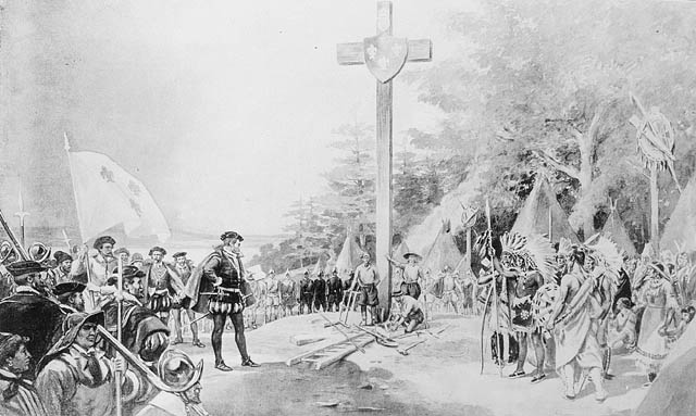 Cartier explored what are now known as Newfoundland, the Magdalen Islands, Prince Edward Island and the Gaspé Peninsula on his first voyage in 1534